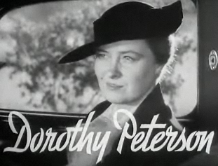 Cropped screenshot of Dorothy Peterson from the trailer for the film Pursuit